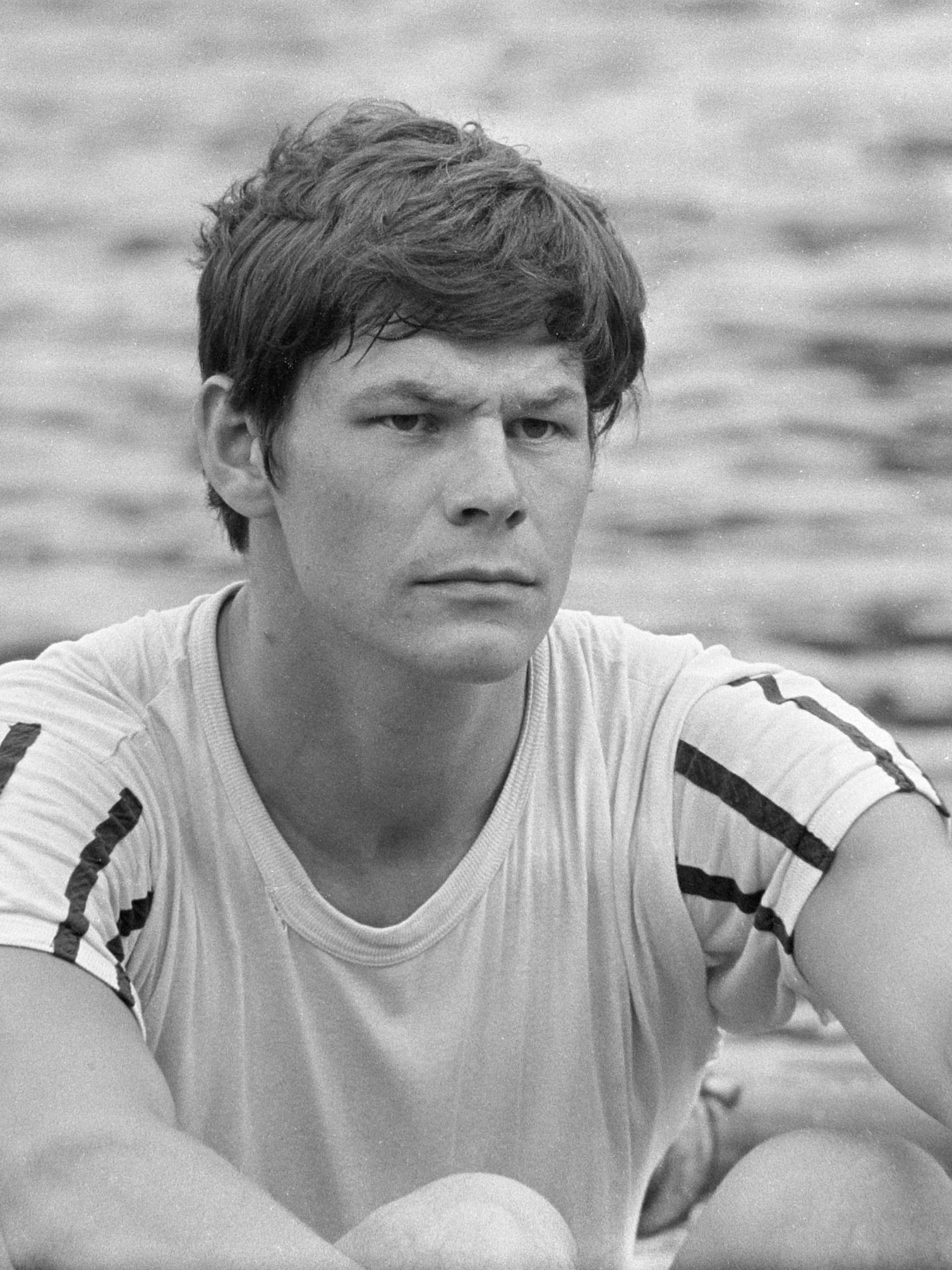 Internationale vriendschappelijke roeiwedstrijden op de Bosbaan, Kloosterman in actie 1 augustus 1968